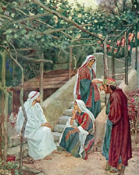 The life of Jesus of Nazareth plate 47.